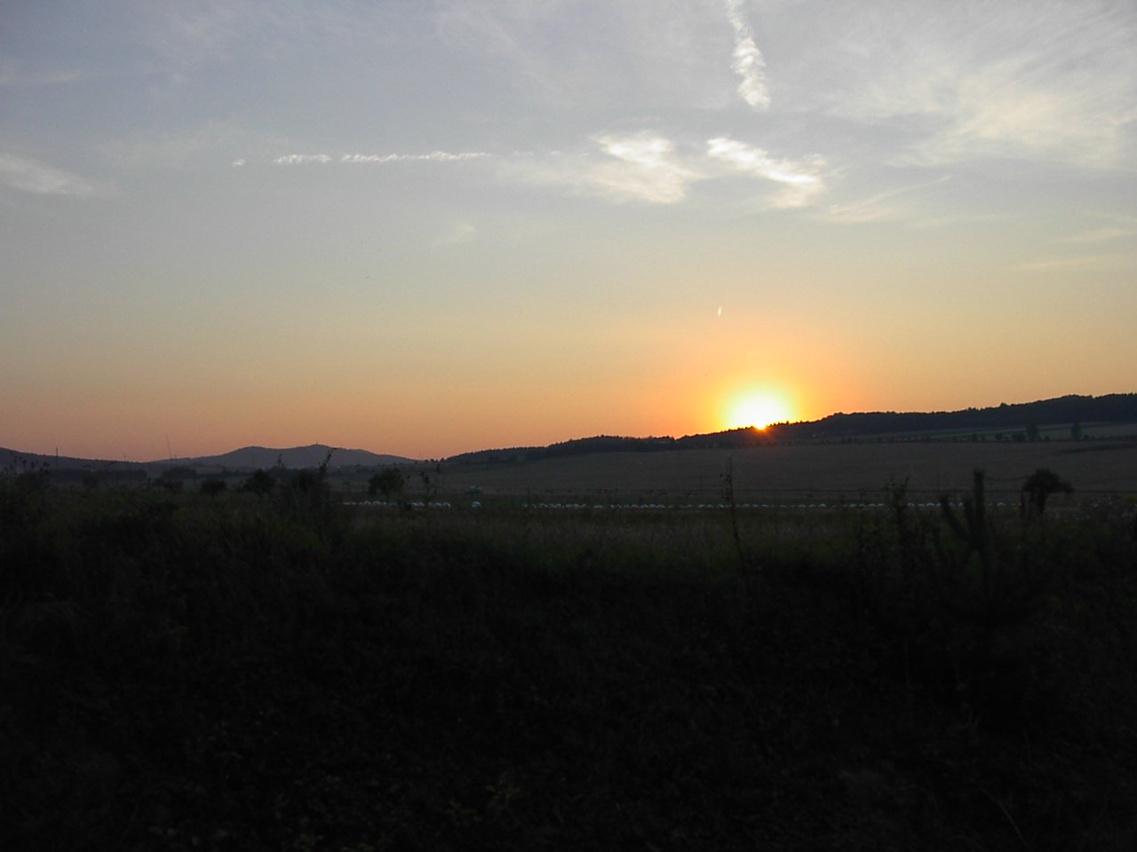 Sunset above the Radeč, Brdy mountain, okres Rokycany, Czech rep.